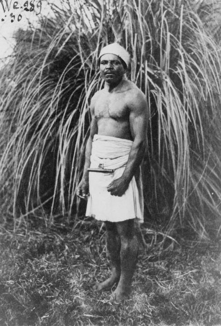 Betsileo man, Madagascar, 1908